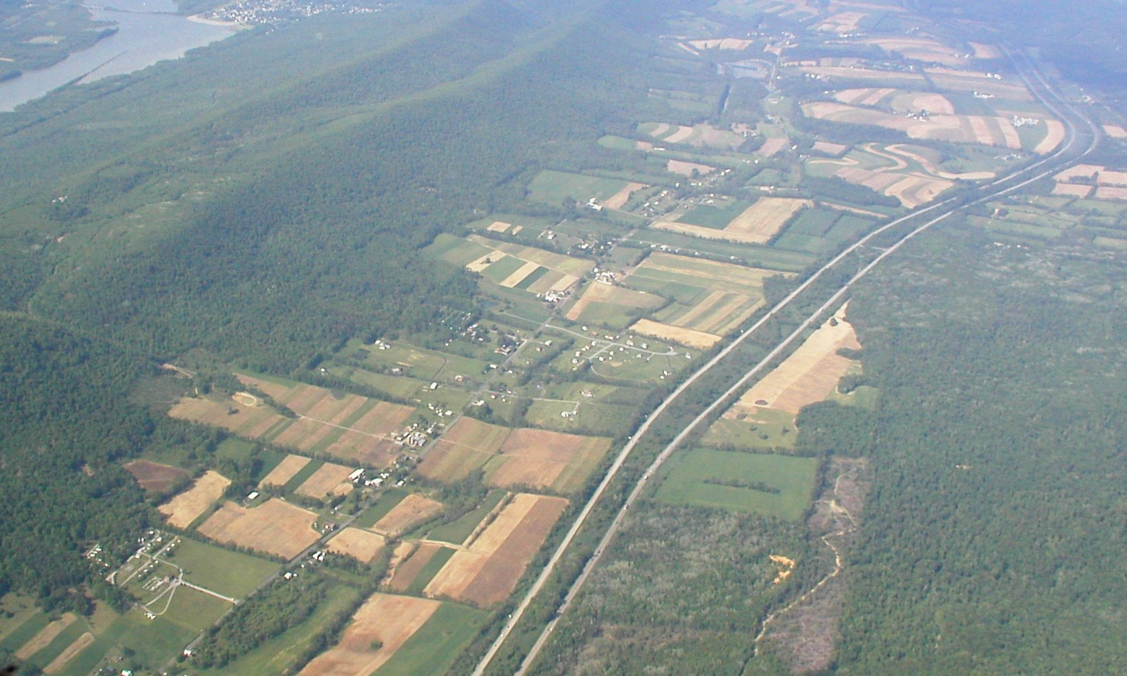 I took this picture